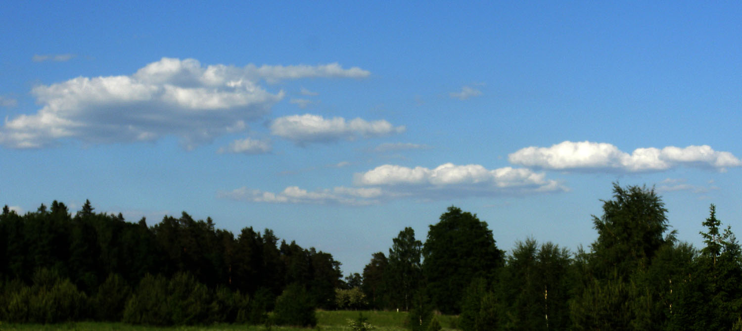 Cumulus humilis clouds showing the typical flatness of the humilis kind